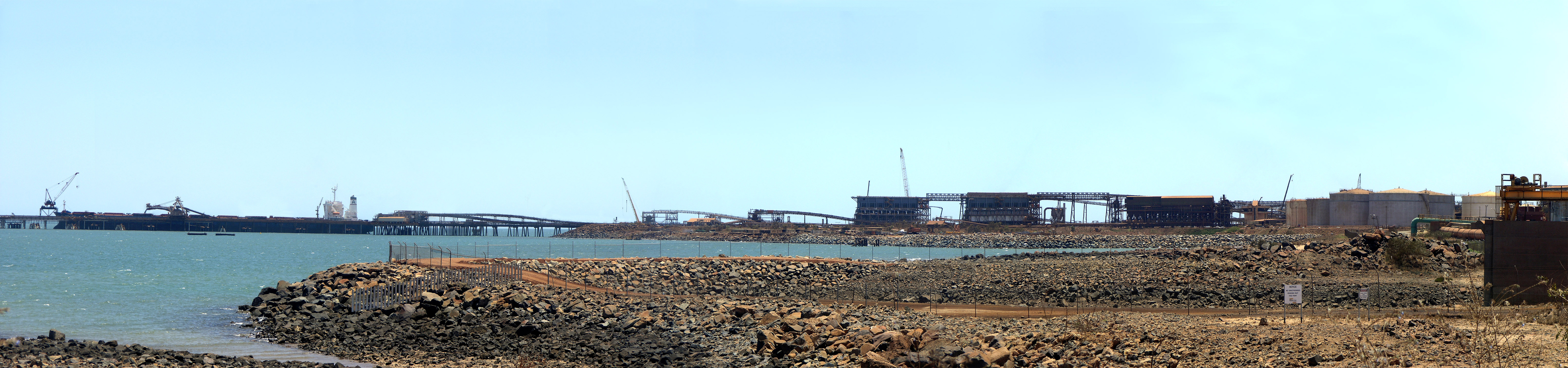 Panorama stitched from pics taken by me with an Olympus C8080W for this page